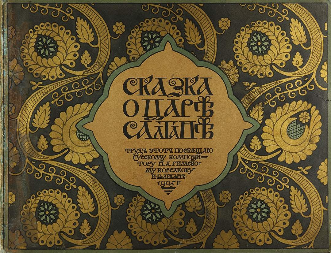 Cover of "The Tale of Tsar Saltan" by Pushkin. Пушкин, А.С. Сказка о царе Салтане, о сыне его, славном и могучем богатыре князе Гвидоне Салтановиче и о прекрасной царевне Лебеди / худ. Билибин; Труд этот посвящаю русскому композитору Н.А. Римскому-Корсакову. СПб.: [Экспедиция заготовления гос. бумаг, 1907]. 20 с., ил. 25 х 32,5 см.